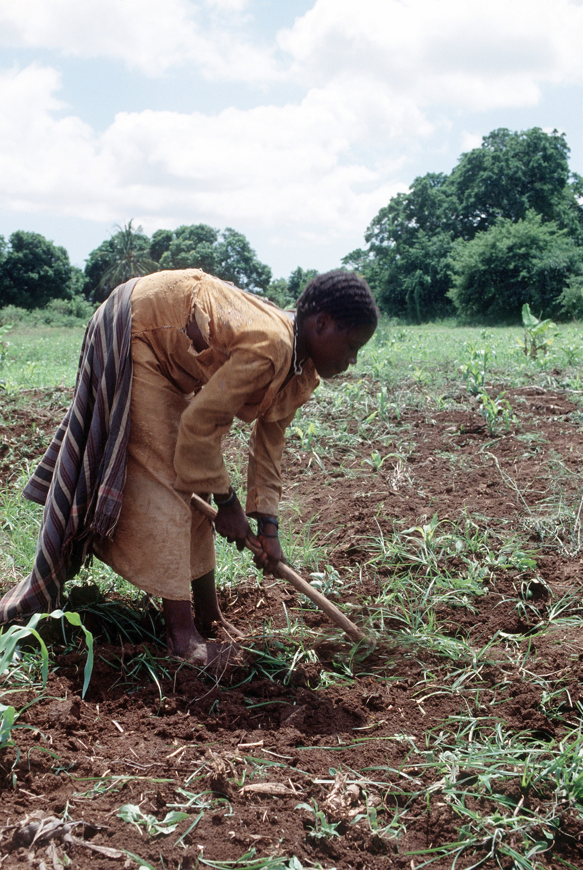 Bantu woman working the fields in Kismayo.